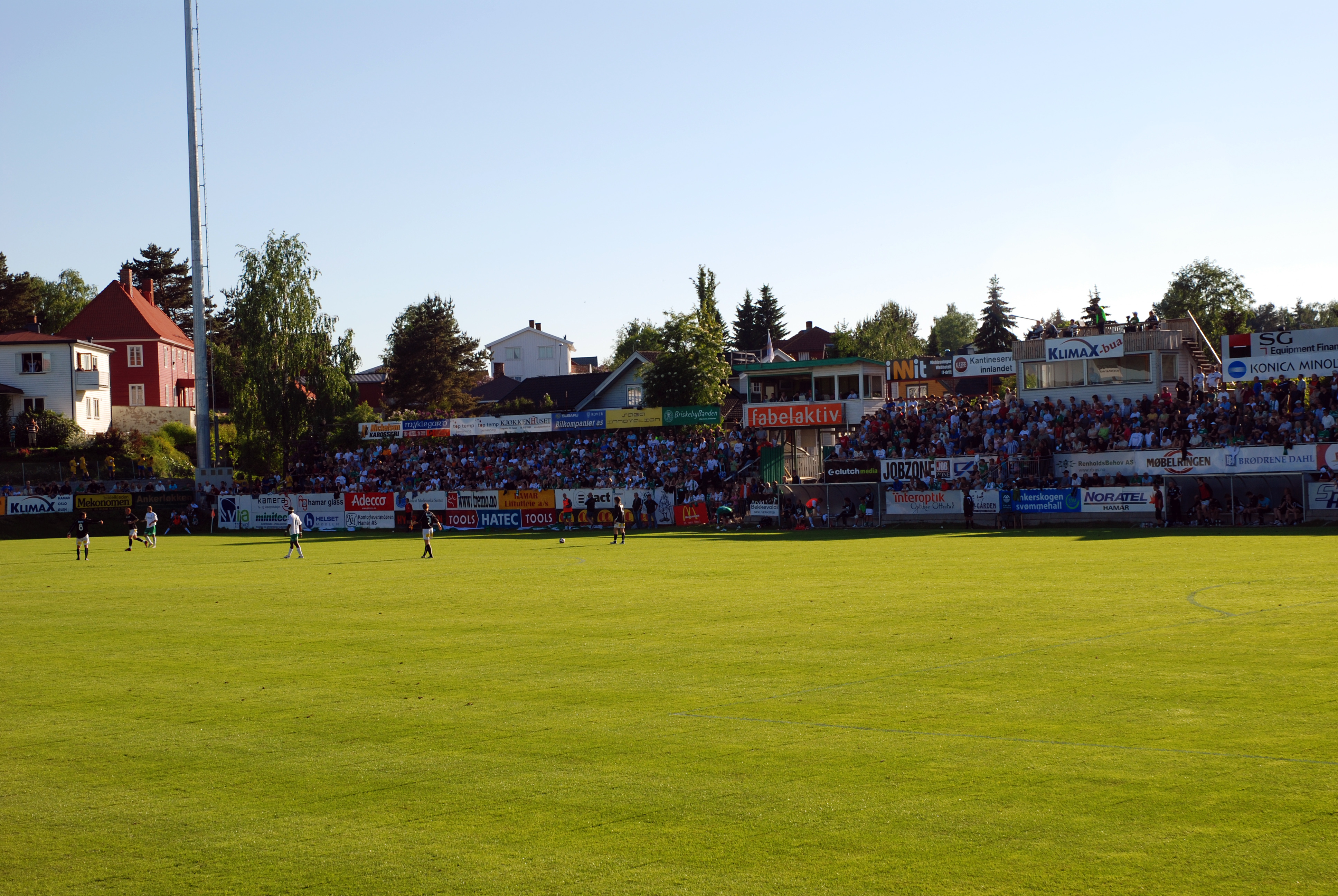 Briskeby gressbane, in Hamar, Hedmark, Norway.